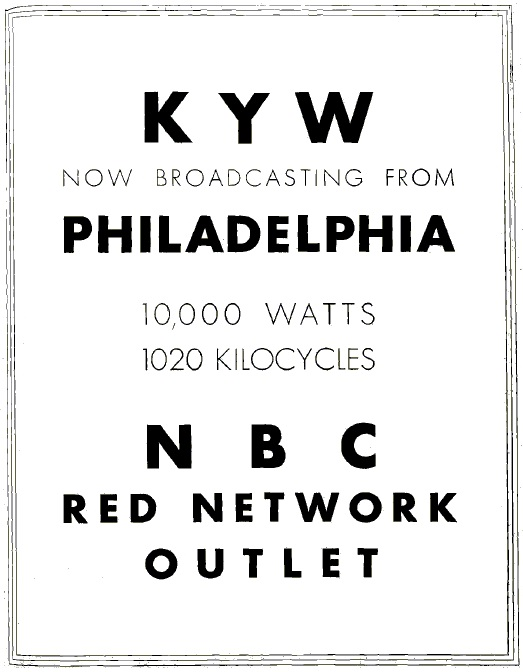 Advertisement for radio station KYW, announcing its move from Chicago, Illinois to Philadelphia, Pennsylvania